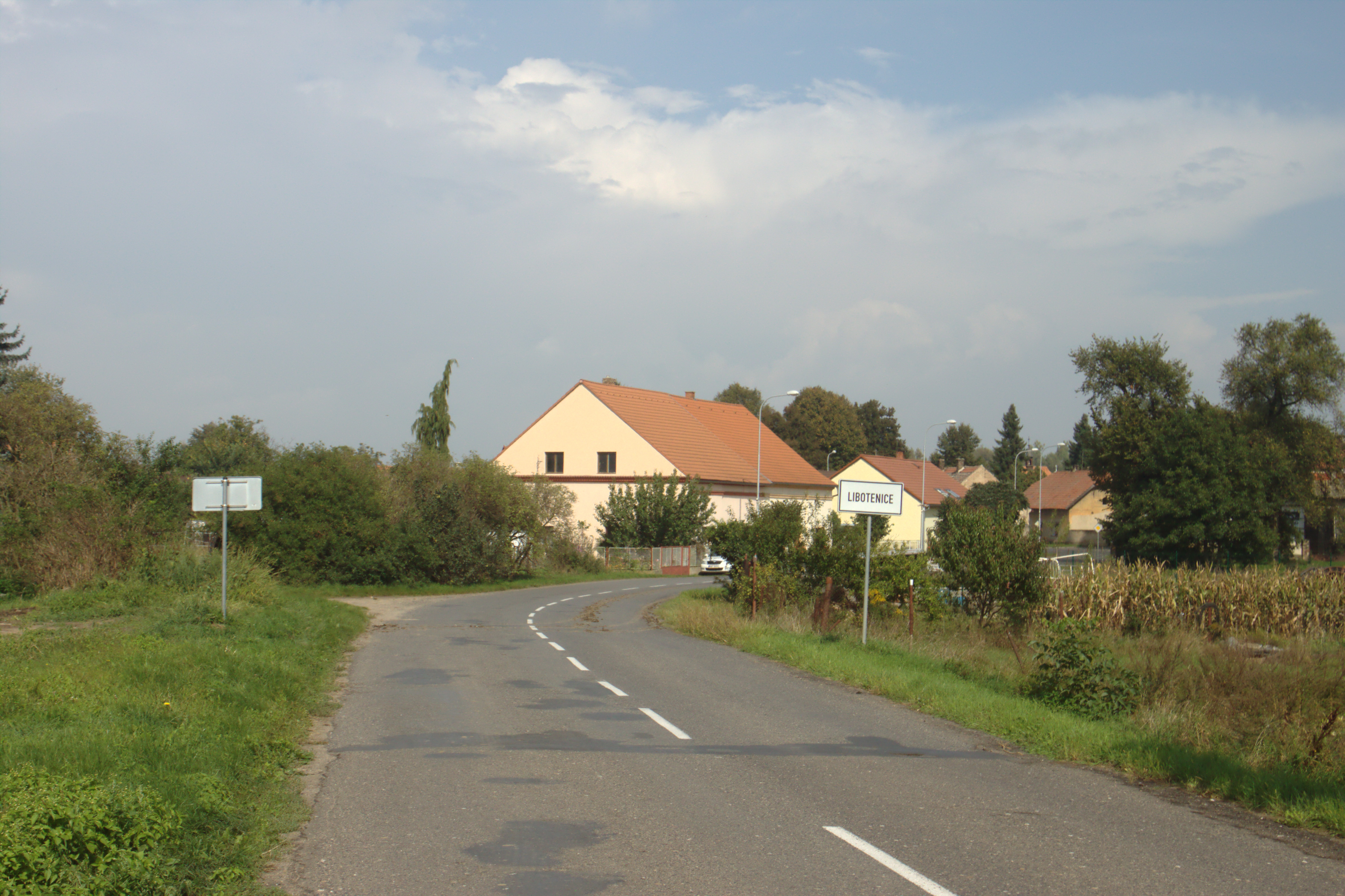 View of the Libotenice village from south